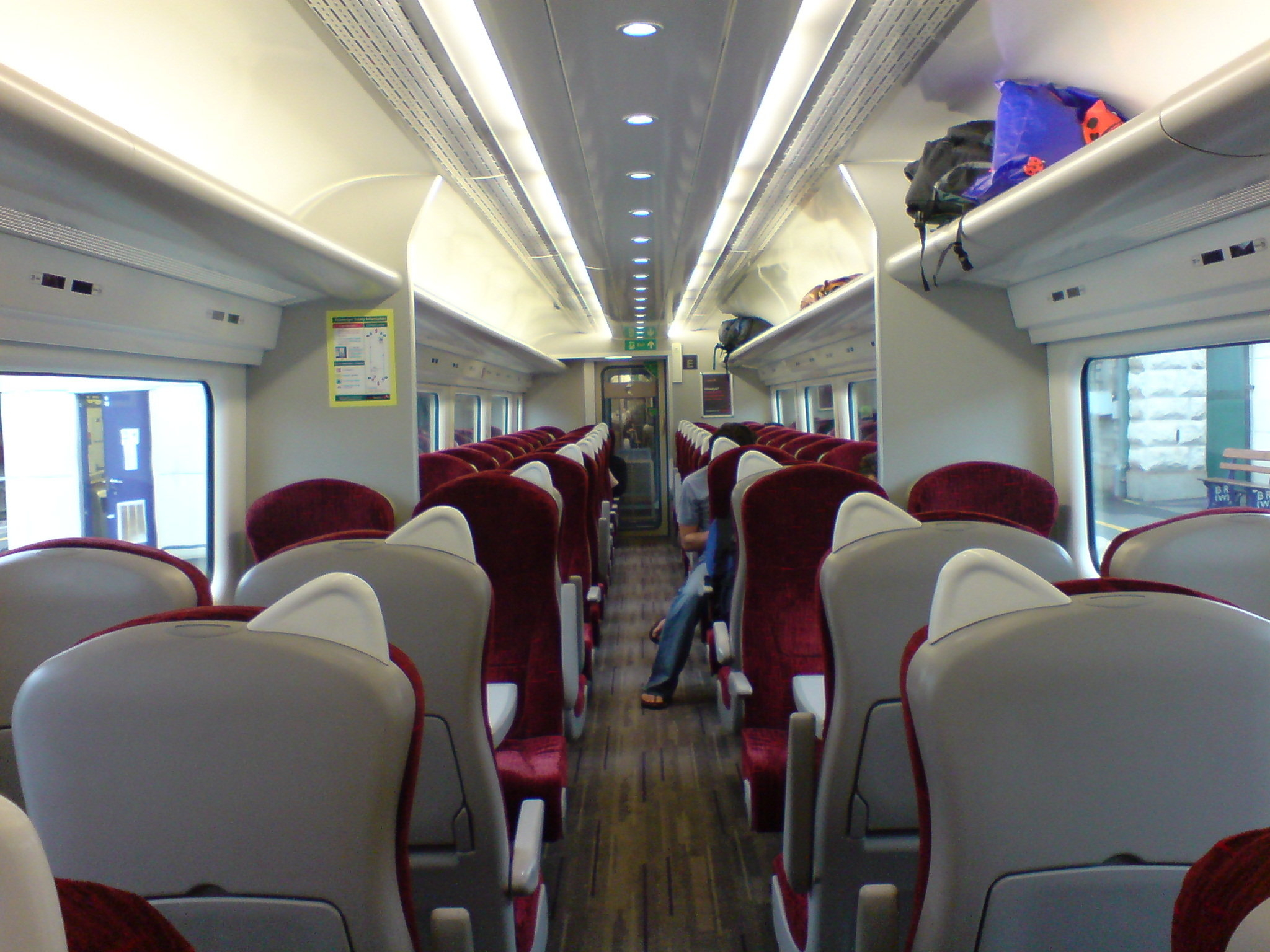 The interior of a British Rail Mark 3 carriage in CrossCountry livery